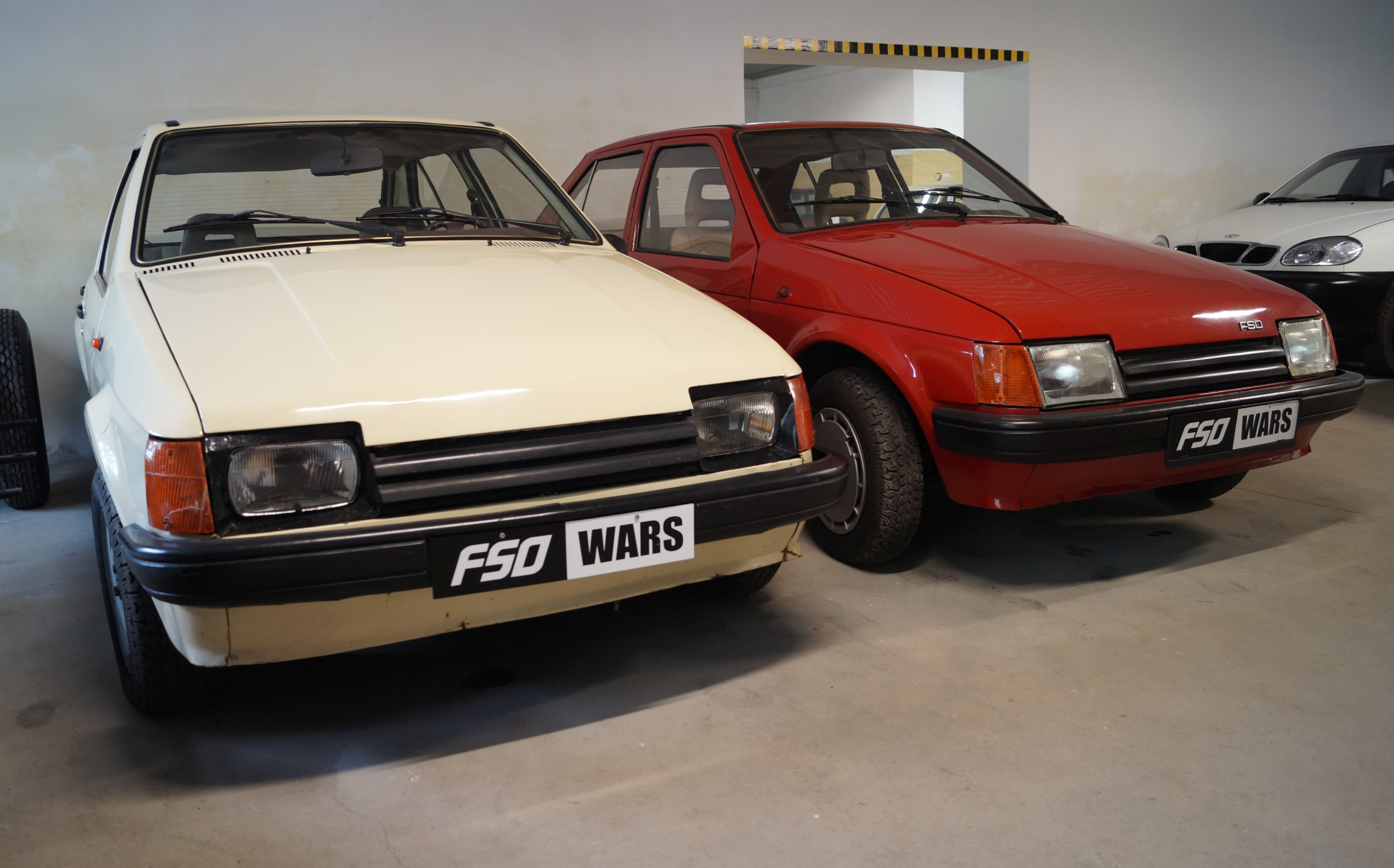 The making of this document was supported by Wikimedia Polska Association, within Wikigrant no. WG 2016-18. English | polski | +/− Dwa prototypy FSO Wars w Muzeum w Chlewiskach